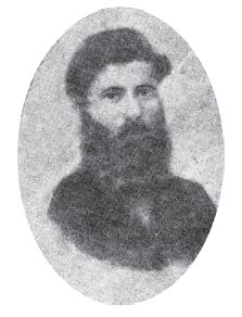 portrait of Krustio Bulgarita